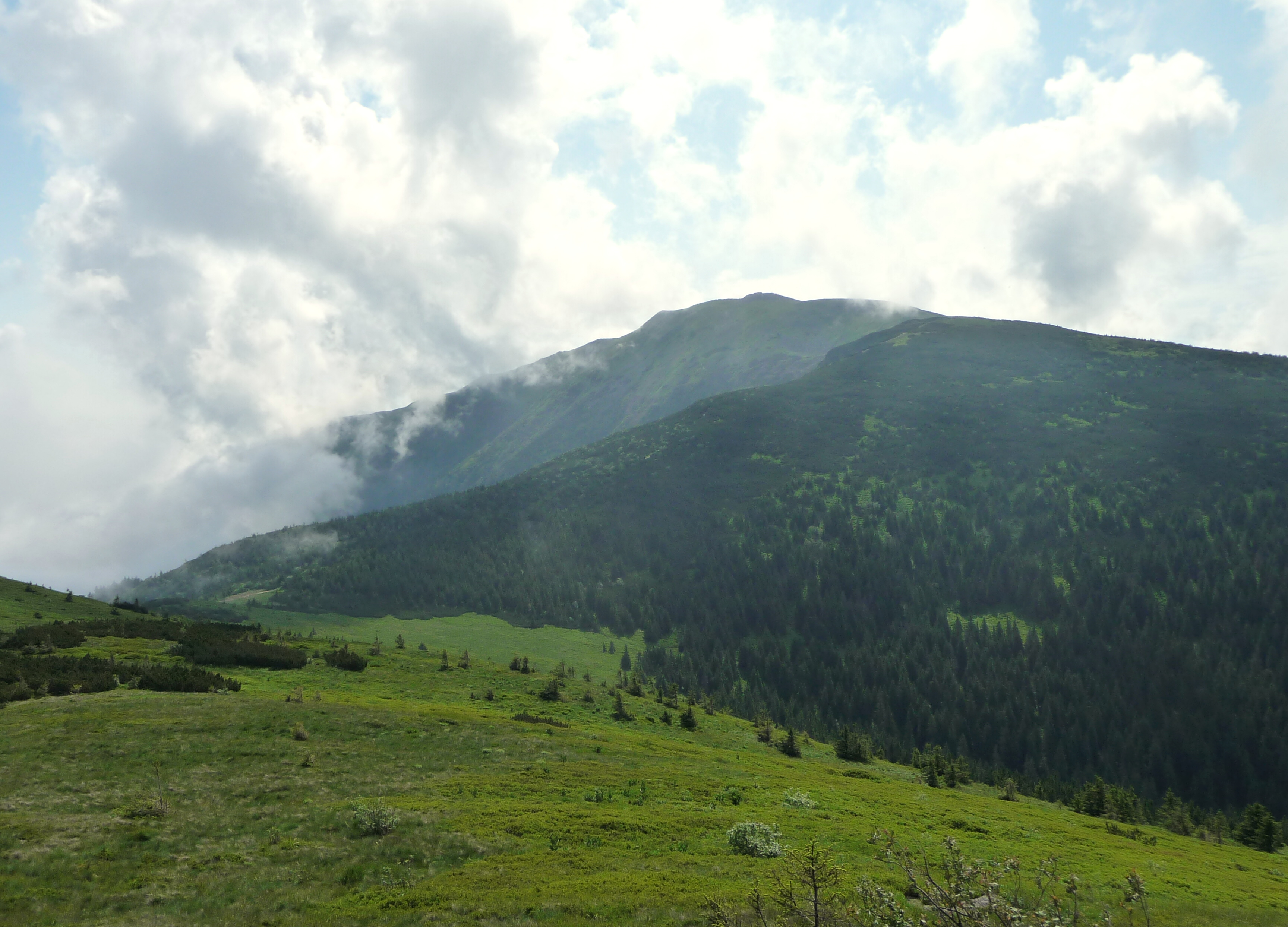 View on Babia Góra/Babia hora from Malá Babia hora/Mała Babia Góra.